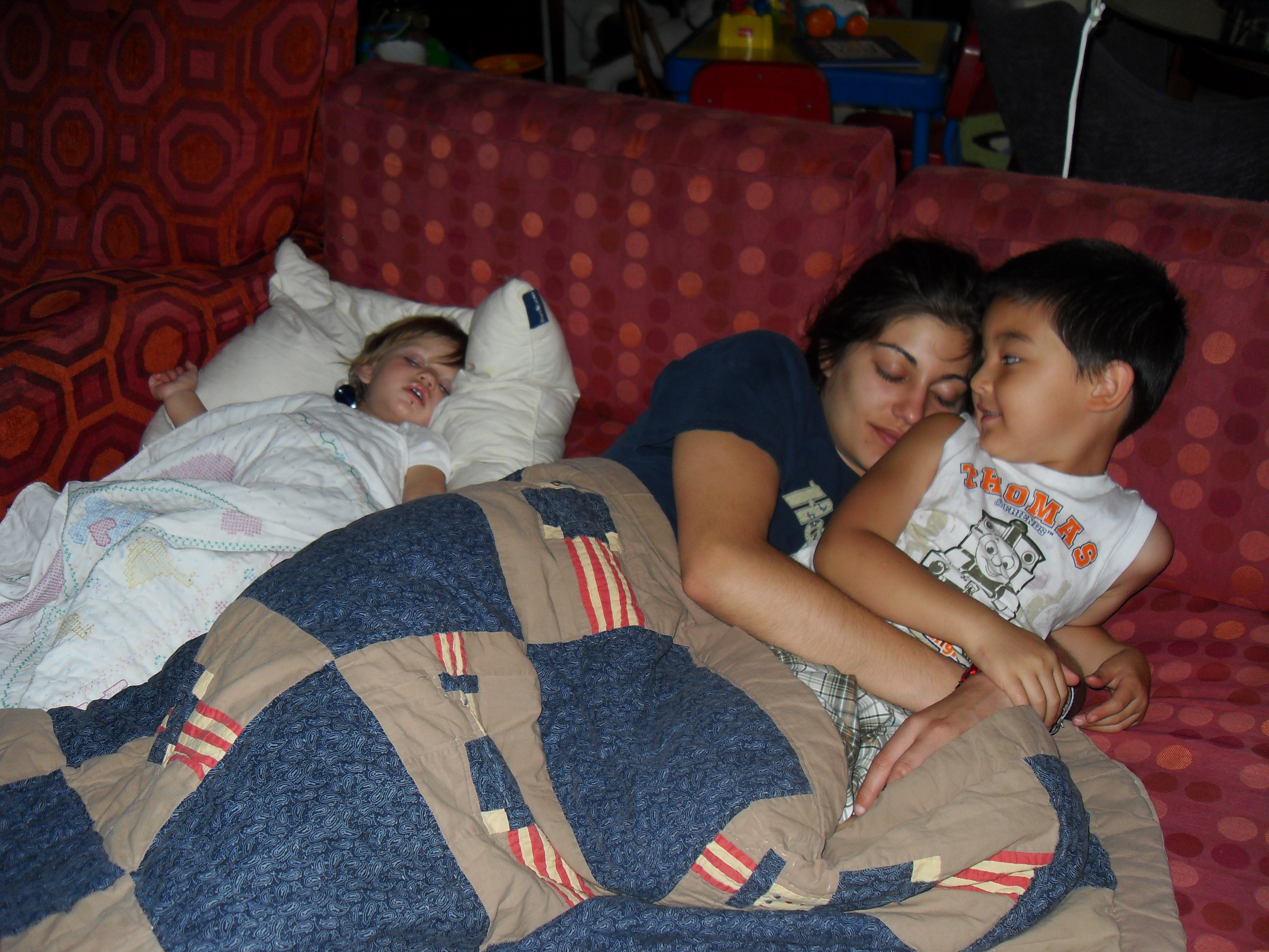 In the End ...